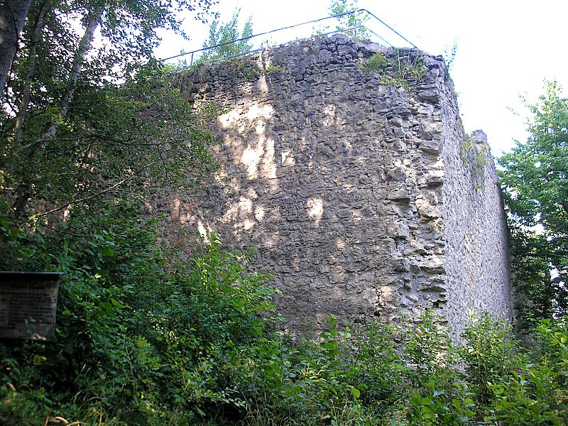 Brunneck castle near Altdorf (Titting, Landkreis Eichstätt, Upper Bavaria, Germany). South western part of the castle